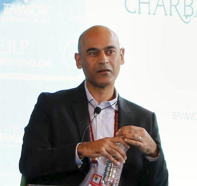 Nisid Hajari speaking on Partition at the 2016 Jaipur Literature Festival